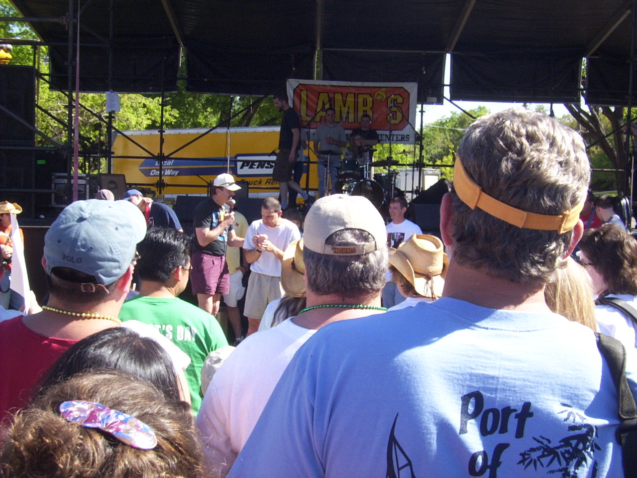 Crowd gathered around watching a participant in the Spam-eating contest at SPAMARAMA in Austin, Texas.